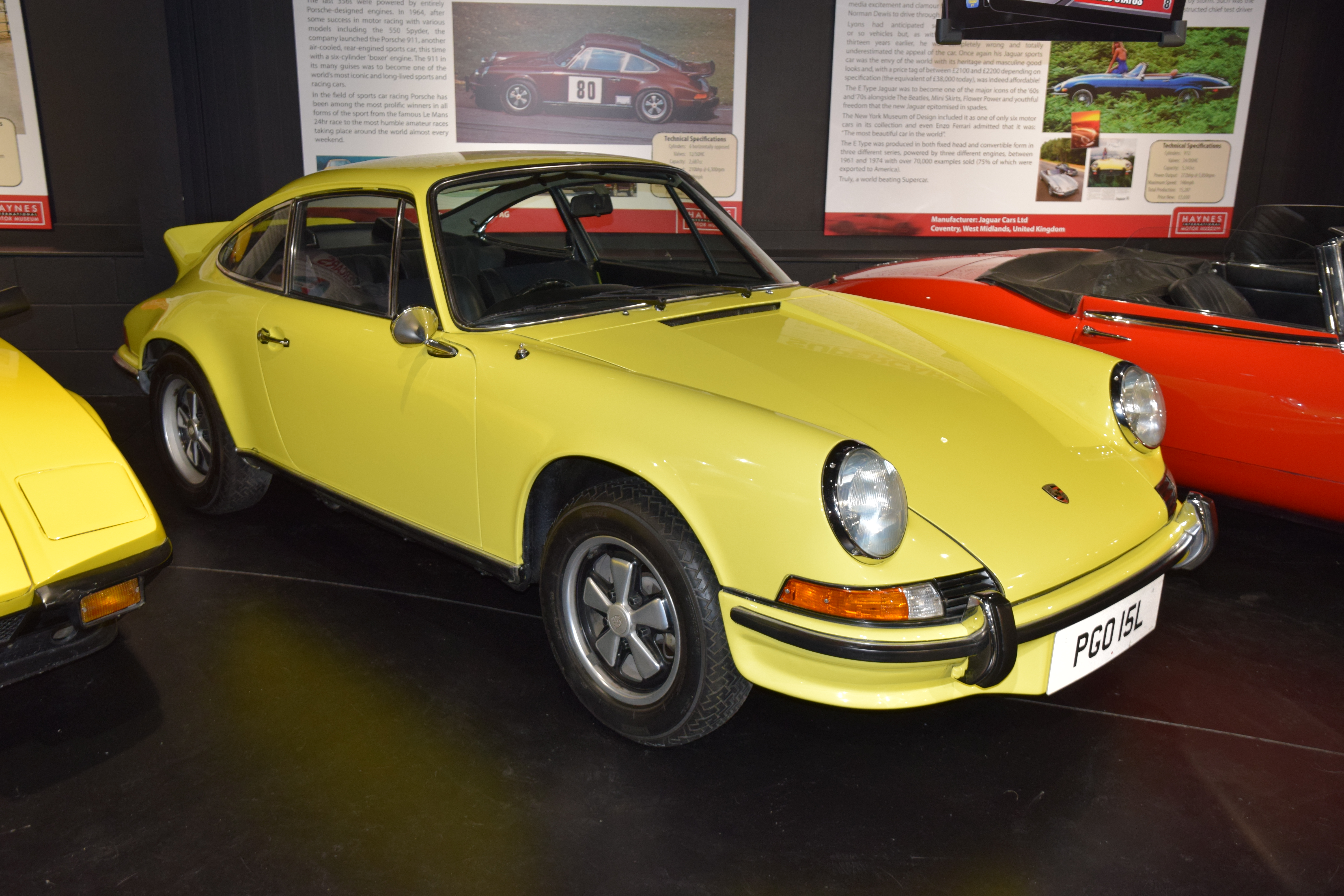 1973 Porsche 911 RS Carrera at the Haynes International Motor Museum, Sparkford, 8 May 2017.